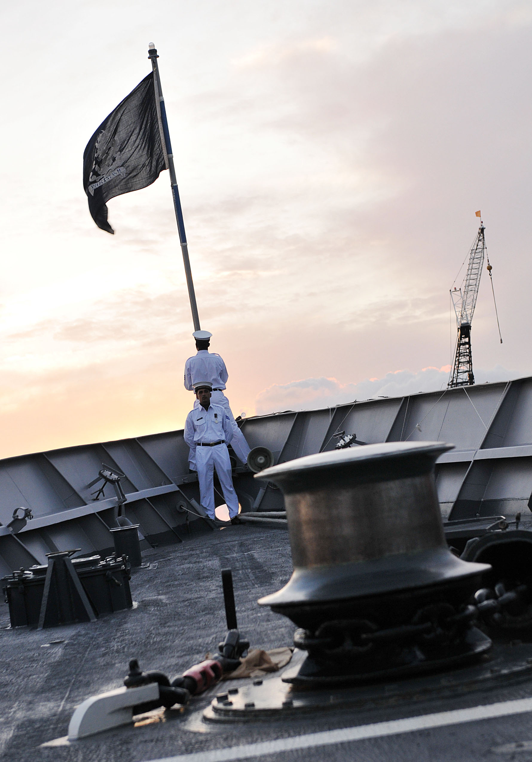 MAYPORT, Fla. (Aug. 31, 2010) Pakistan sailors hoist the ship's flag for the first time aboard the Pakistan navy frigate PNS Alamgir (F 260) during the ship's commissioning ceremony at Naval Station Mayport. Alamgir was decommissioned from the U.S. Navy as USS McInerney (FFG 8). (U.S. Navy photo by Mass Communication Specialist 2nd Class Gary Granger Jr./Released).